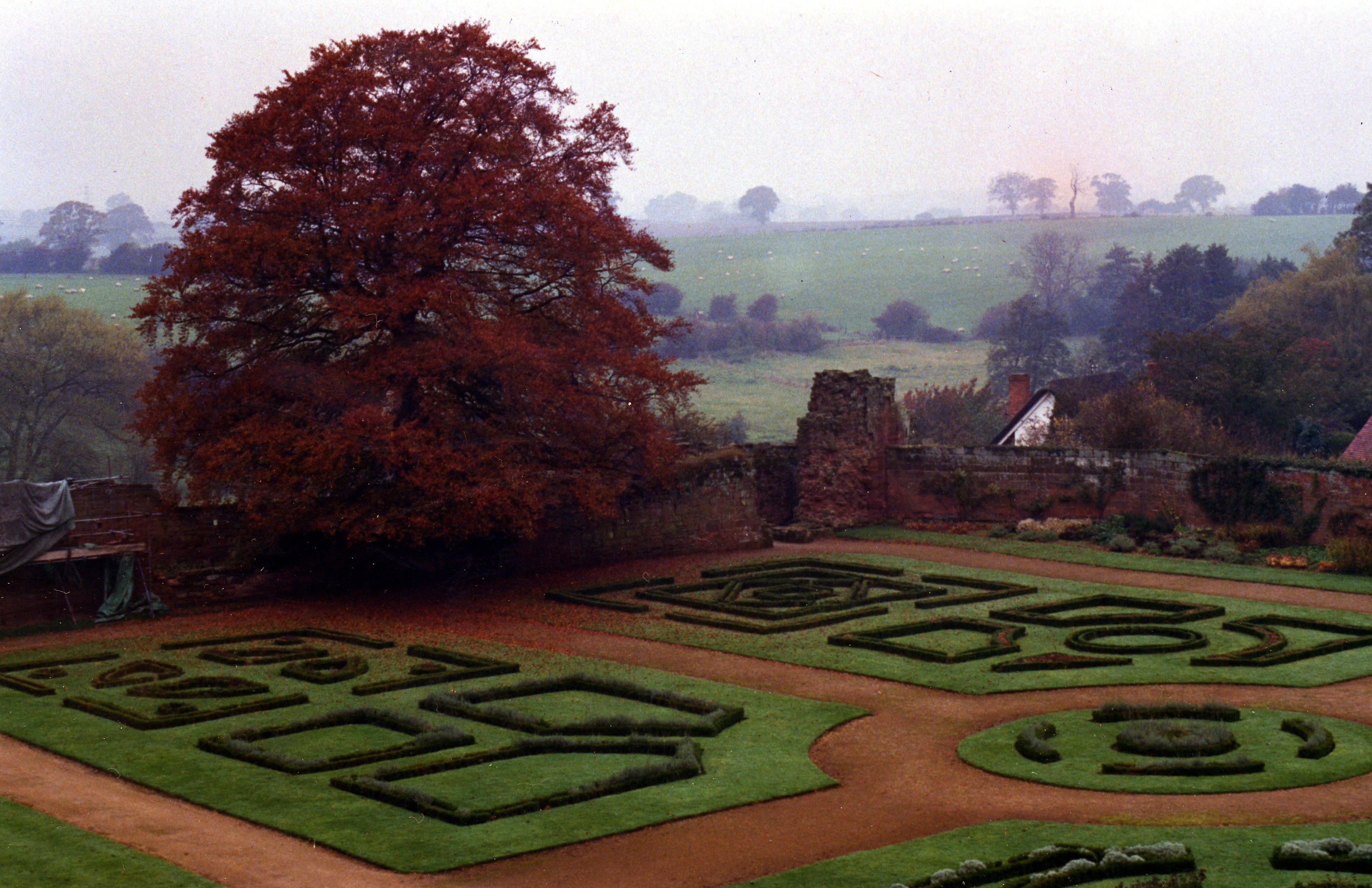 The Elizabethan Gardens at Kenilworth Castle, Warwickshire